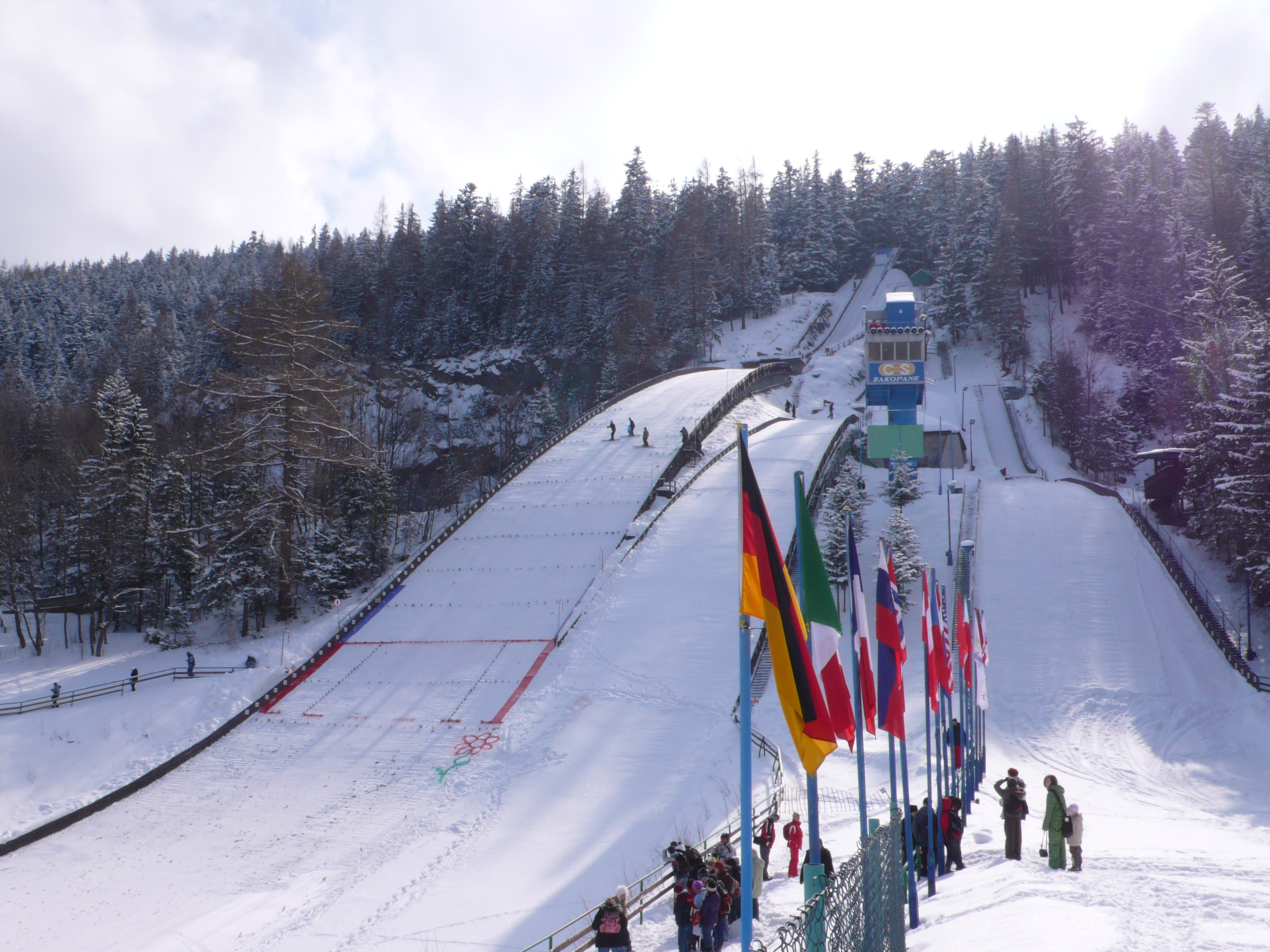 Complex of ski jumping hills of Średnia Krokiew in Zakopane in Polish Tatra Mountains. More information in Wikipedia.